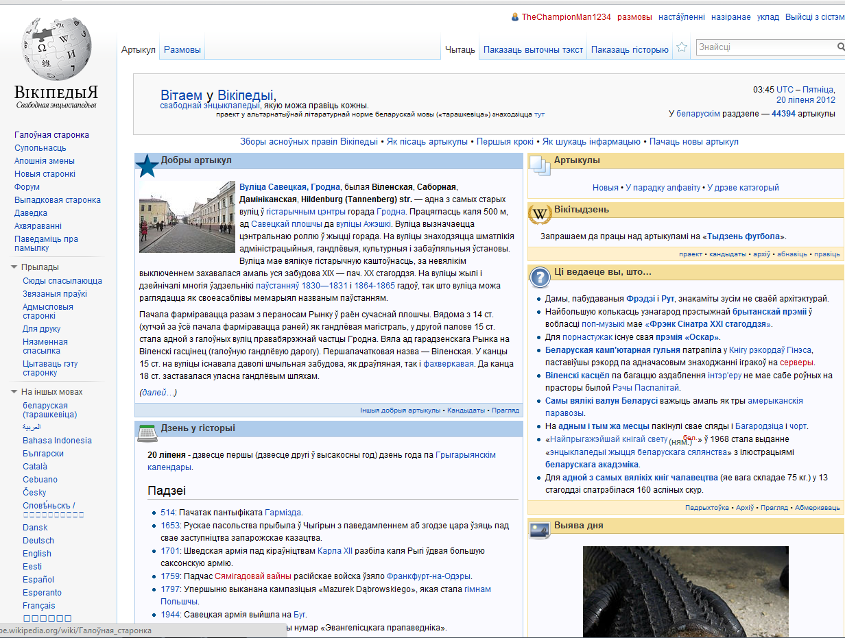 Screenshot of Belarusian Wikipedia